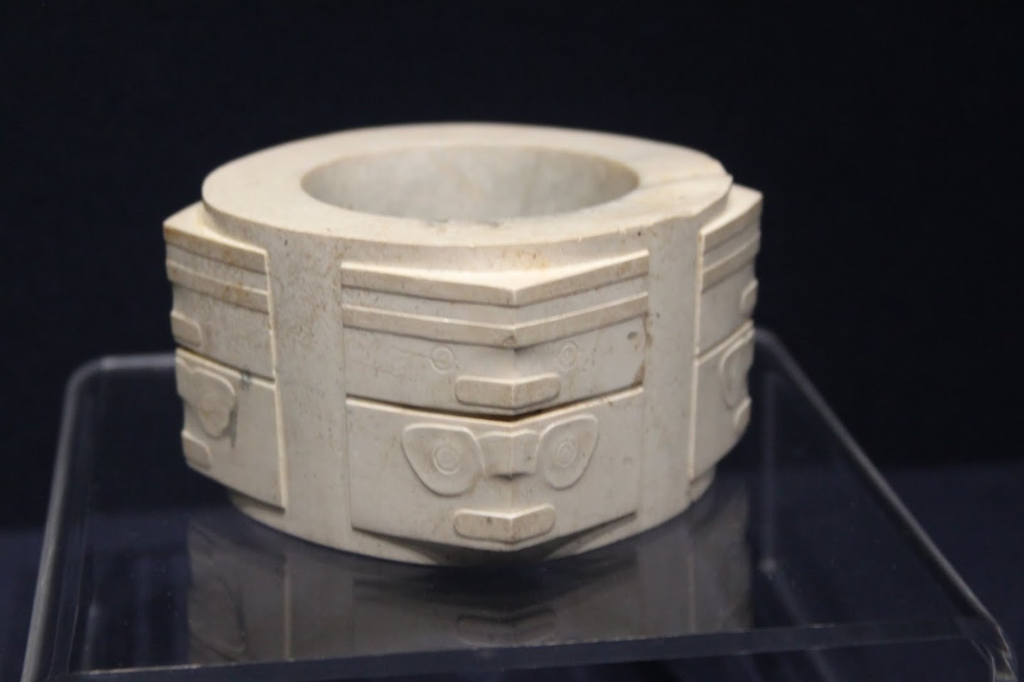 Jade cong, Liangzhu Culture, 5200-2200 BC. Shanghai Museum